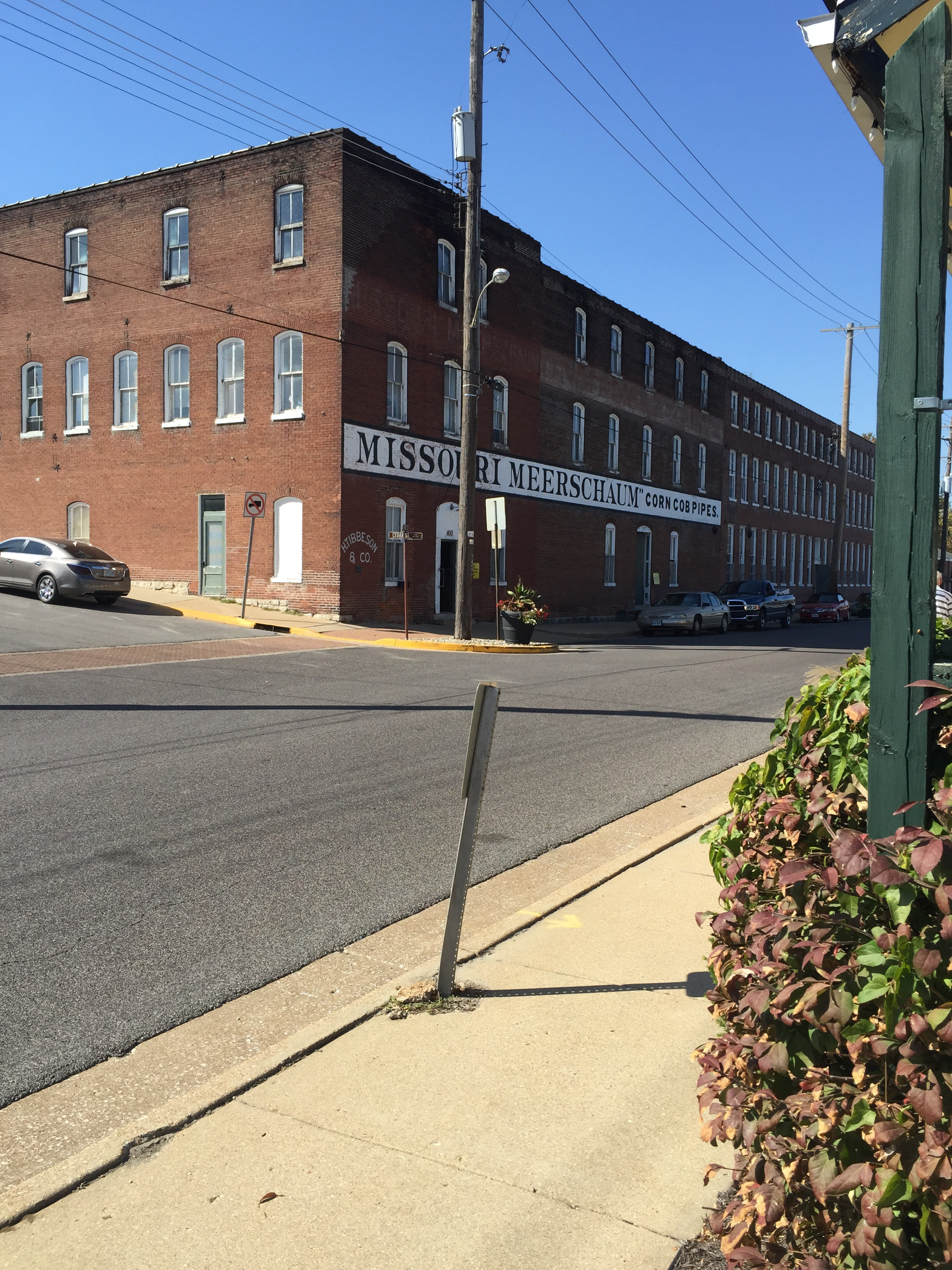 The last corncob pipe company in the world. Located in Washington, MO, the Missouri Meerschaum Company still makes corncob pipes today.